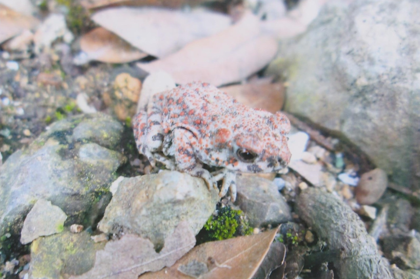 A red spotted toad in the ghost town of Duquesne, Arizona. Patagonia Mountains 2014